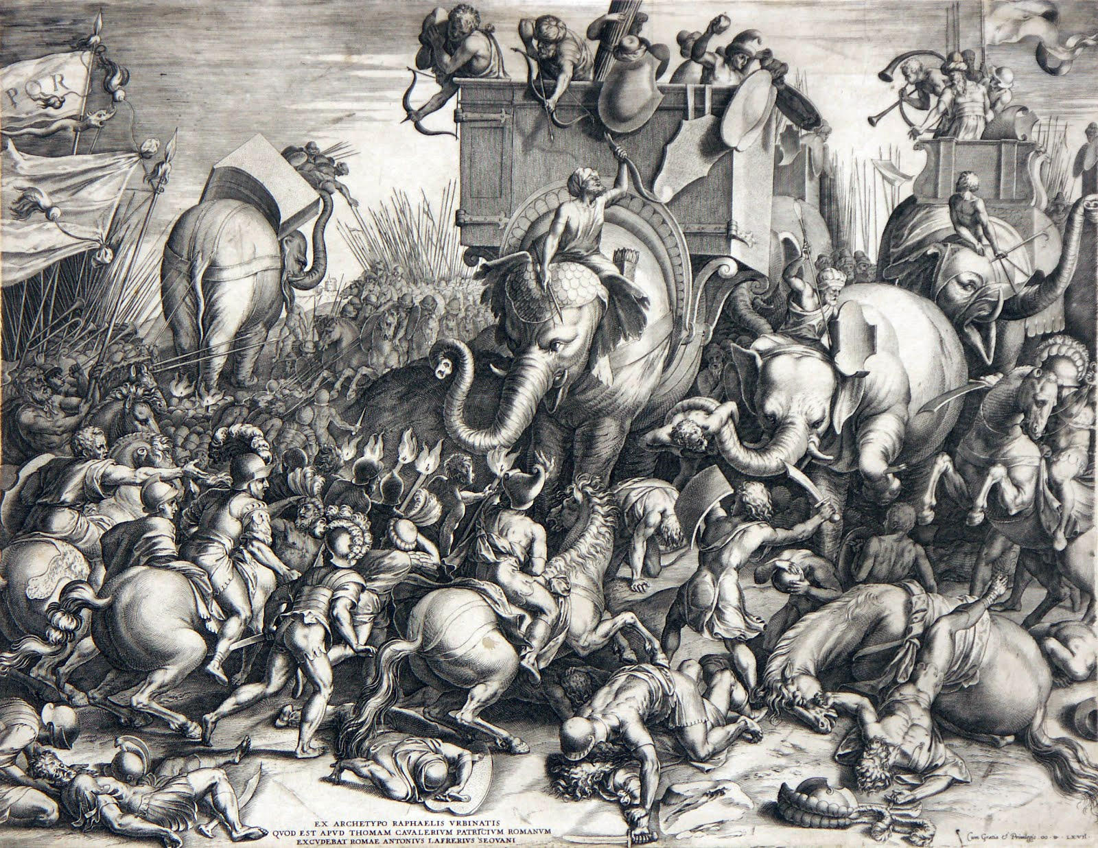 Battle of Zama, 202 B.C. Painted by Cornelis Cort, 1567.